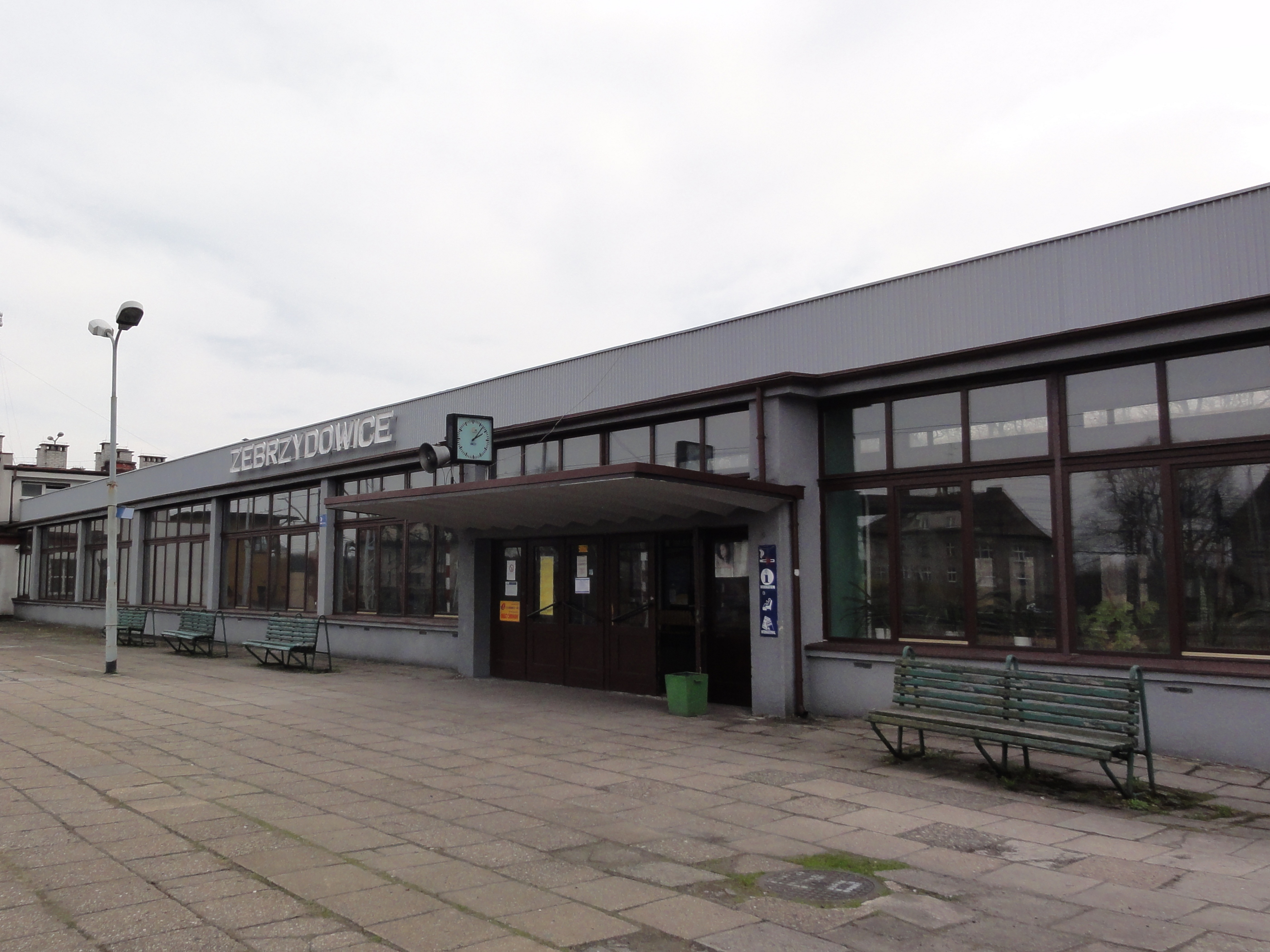 Train station in Zebrzydowice